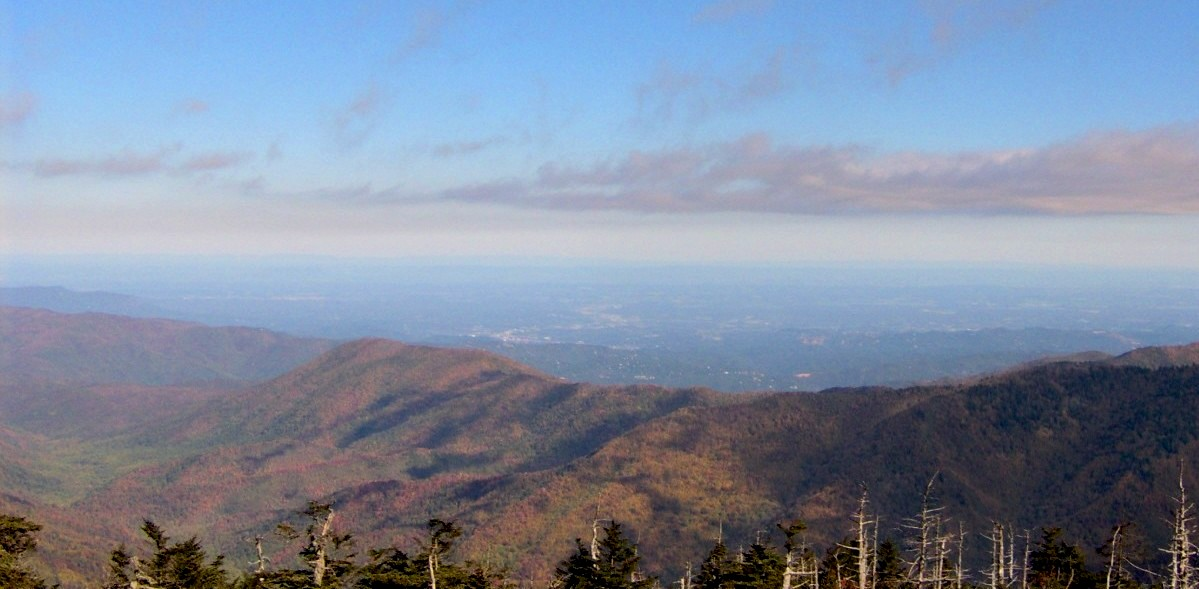 Looking north from the observation tower at the summit of Clingman's Dome (el. 6,643 feet/2,024 meters). Sevier County, Tennessee is below. Pigeon Forge and Sevierville are located around the winding white strip near the center. The ridge in the foreground is Sugarland Mountain. Clingman's Dome is the highest mountain in the Great Smokies and the highest point on the Appalachian Trail.